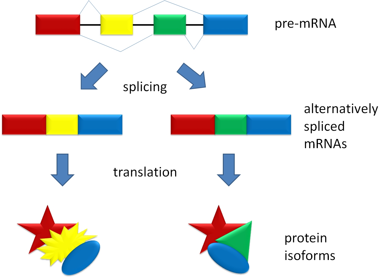 Cartoon showing alternative splicing resulting in protein isoforms.